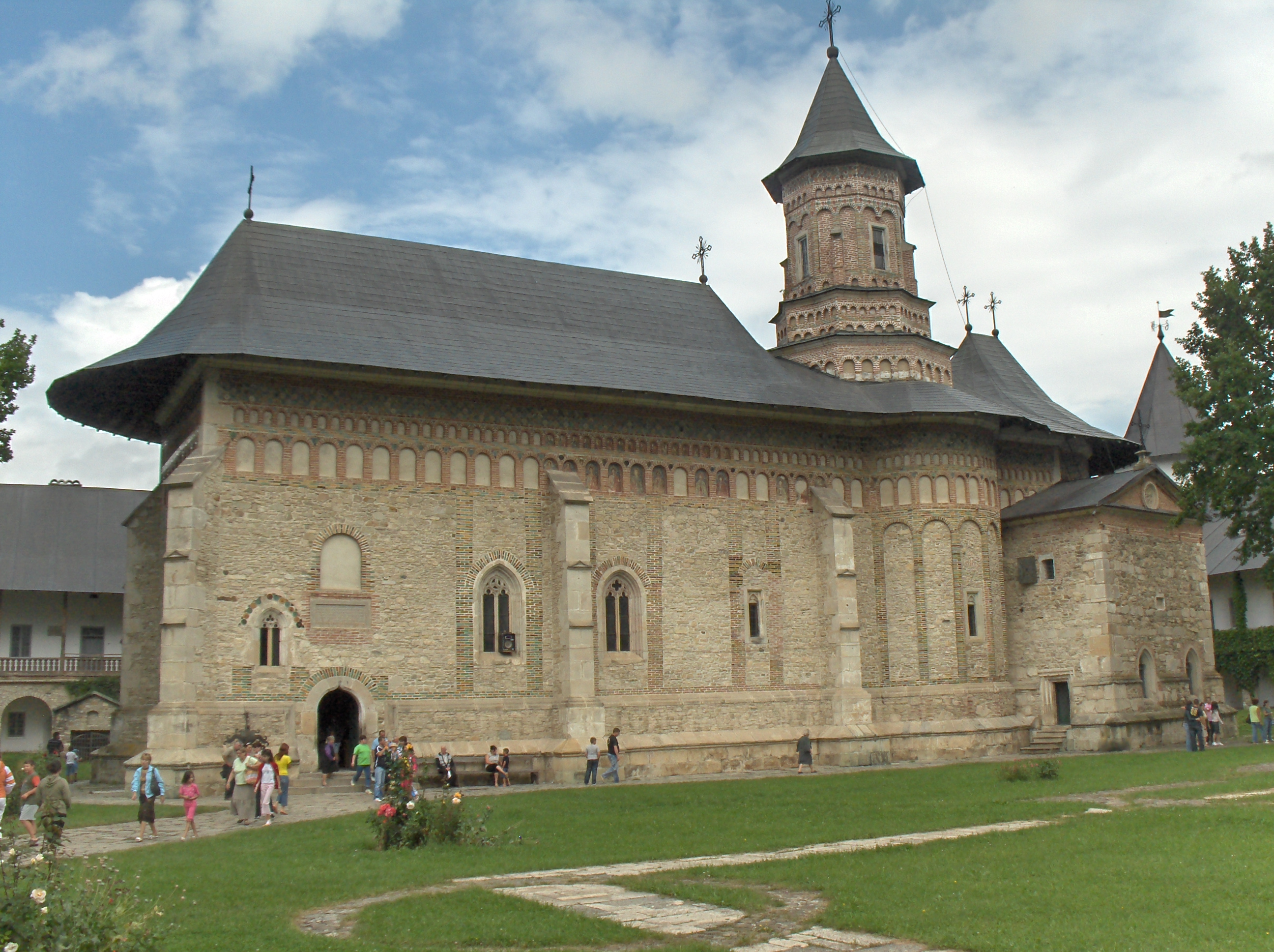 The 14th Century Church of Neamţ Monastery, beautiful example of Moldavian architecture 01